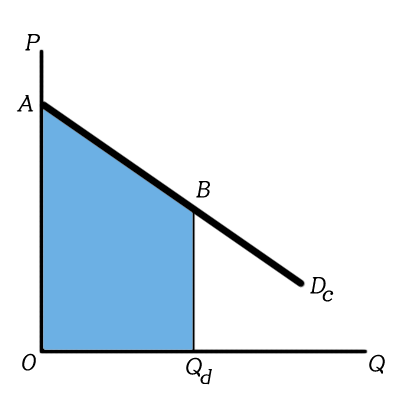 Graph - 1st price discrimination